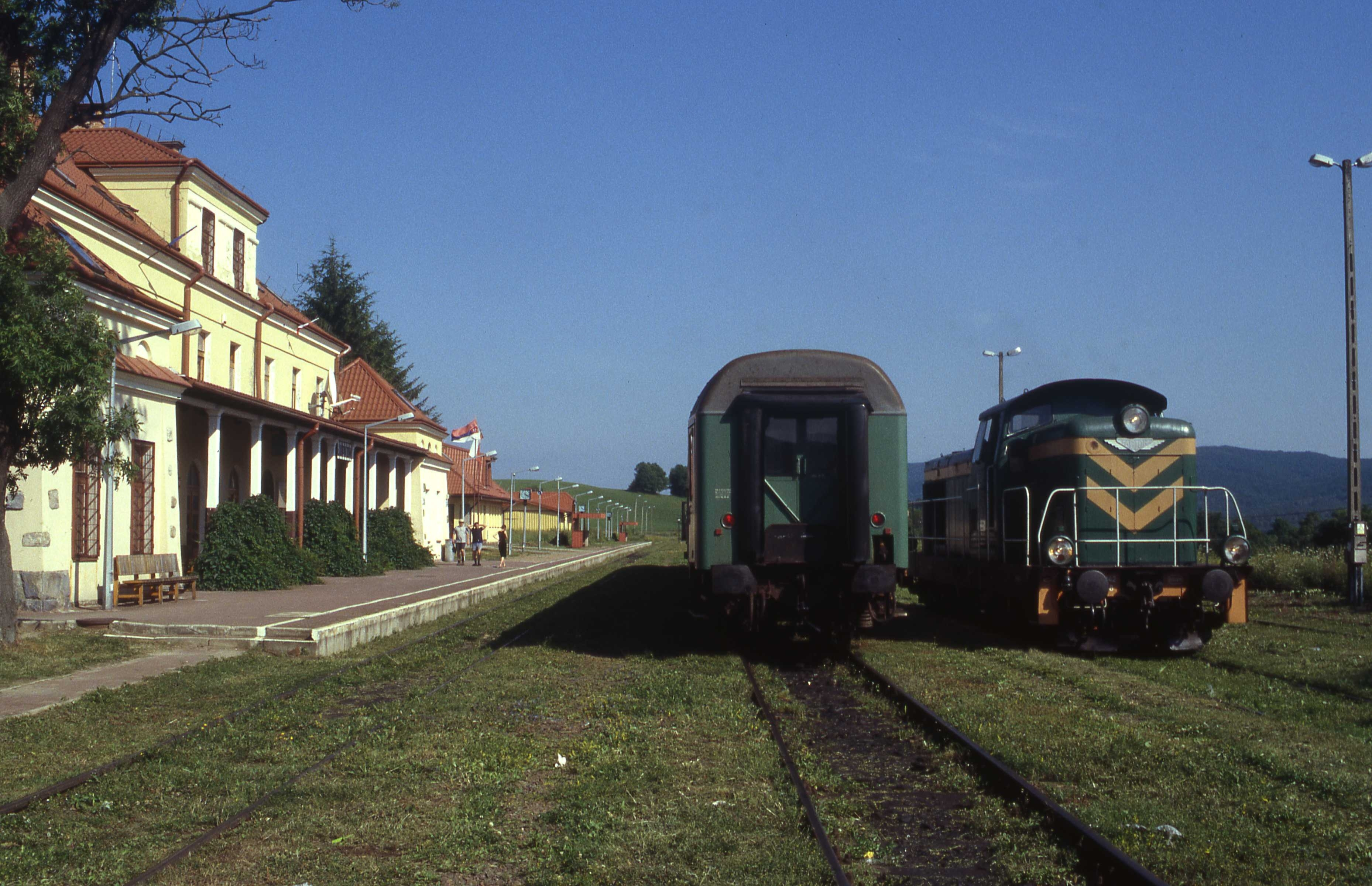 The local Polish train has arrived at Łupków and the locomotive runs around to take the two coaches back. In 2004 there was stil a connection with Slovakia.